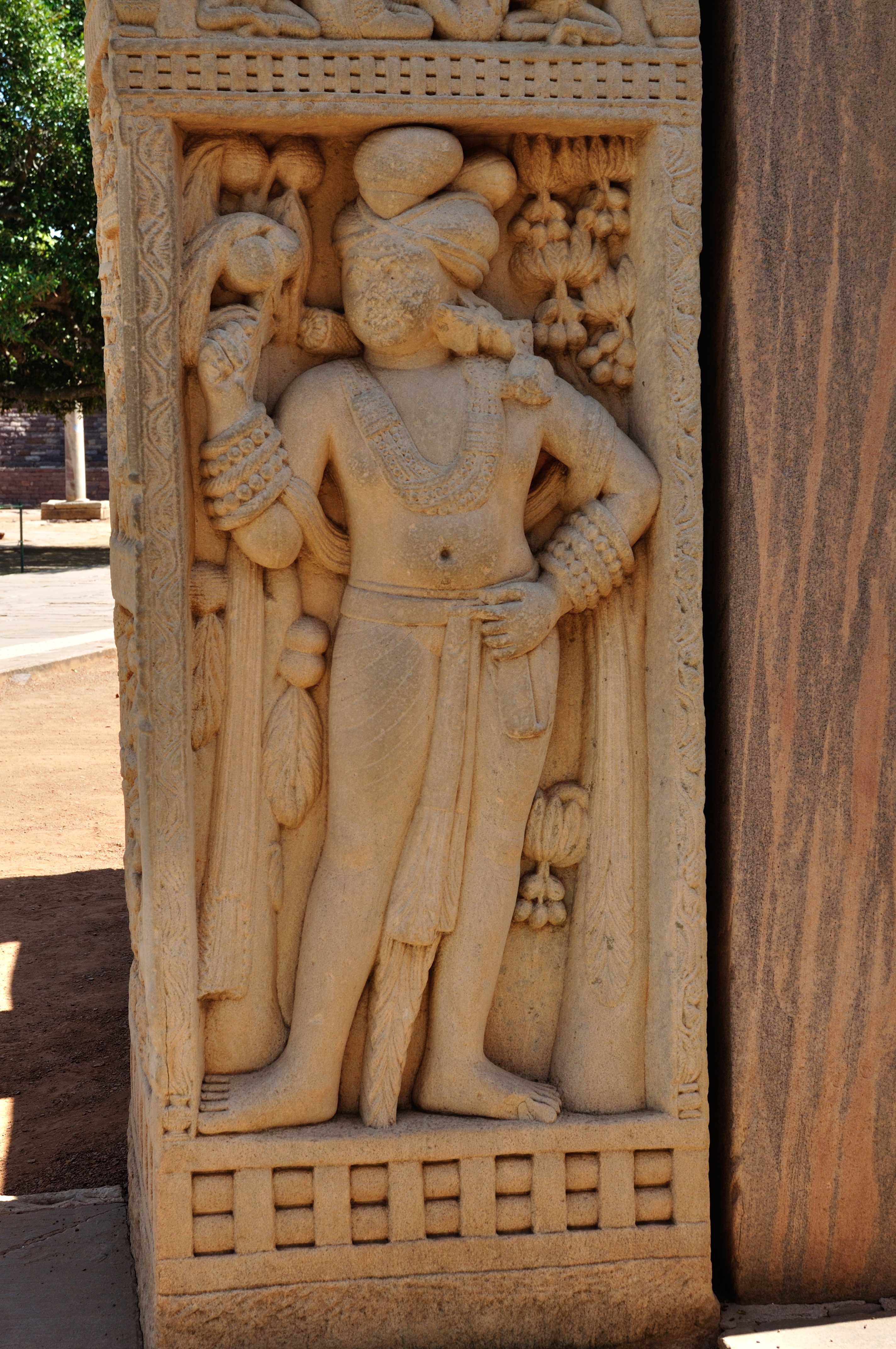 Buddhist monument at the Sanchi Hill, Raisen district of the state of Madhya Pradesh, India.